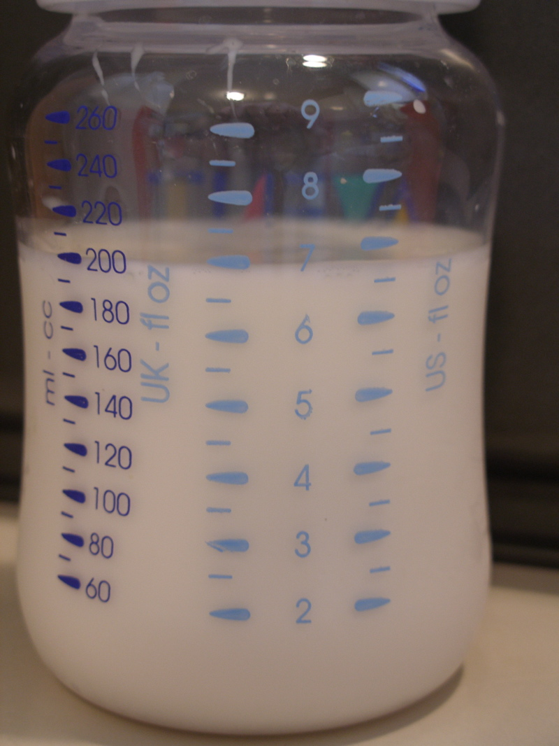 A baby bottle that displays in all three measurement systems--Metric, Imperial, and U.S. Customary. The bottle states that it is "Made in England" by the "Avent Naturally" baby products company. This bottle was purchased in 2005 in Detroit, Michigan, United States